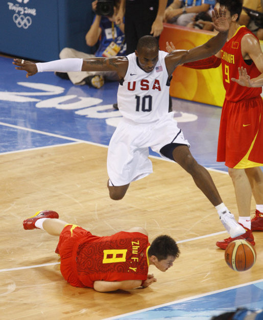 Captions read: U.S. Olympic Men's Basketball team member Kobe Bryant leaps over a member of China's team chasing for a loose ball Sunday, Aug. 10, 2008, during action in the Group B men's Olympic basketball game between the U.S. and China, at the 2008 Summer Olympic Games in Beijing.